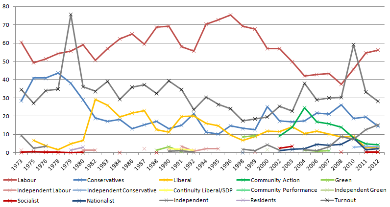 Popular voter share for Wigan local elections between 1973 and 2012.